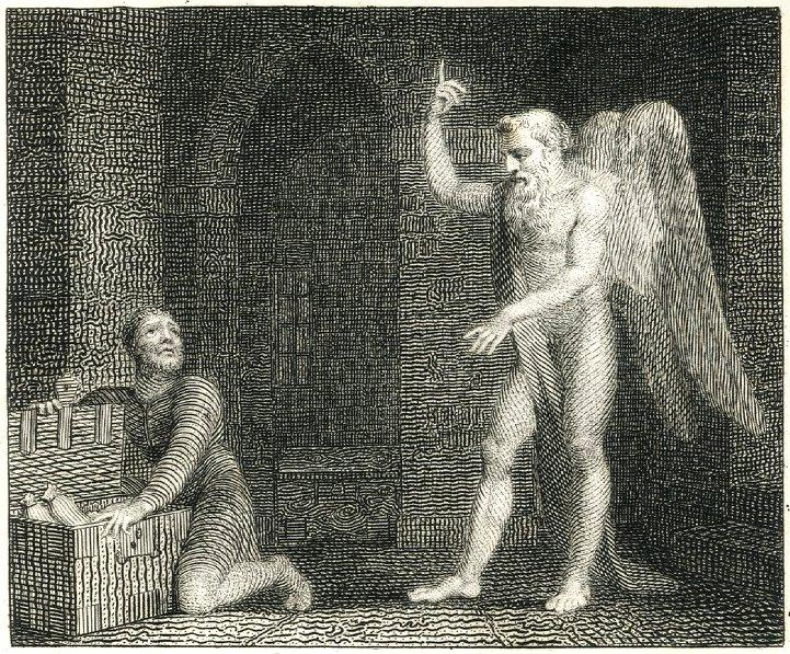 A print of John Gay’s Fable VI, "The Miser and Plutus" from the edition of his Fables (London, 1793) engraved and etched by William Blake